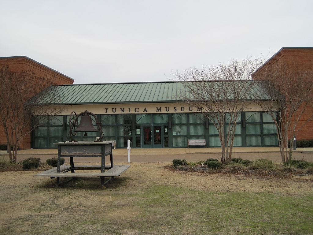 Tunica Museum on 1 Museum Boulevard off of US 61 in just north of Tunica, Mississippi.